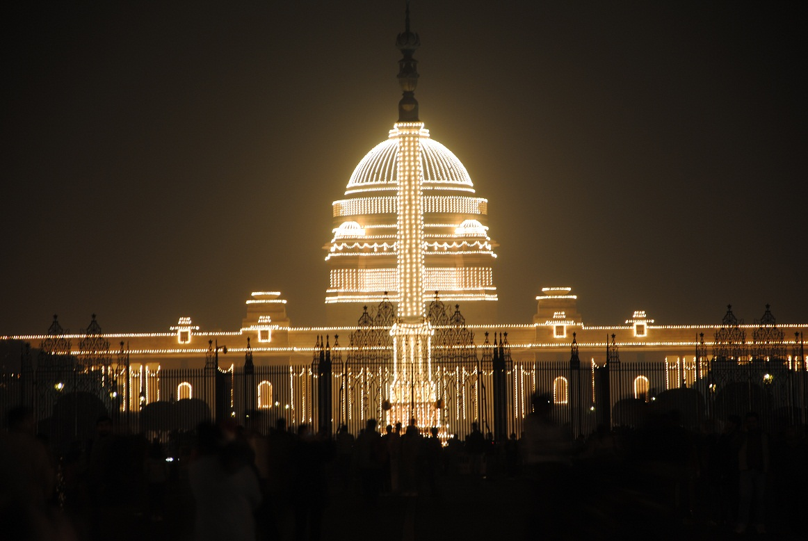 Republic day celebrations. and following beating retreat.